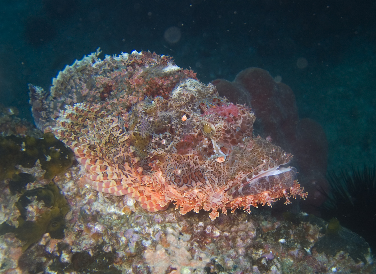 Scorpaenopsis oxycephala, or the tassled scorpionfish. Taken on a dive in Mozambique.